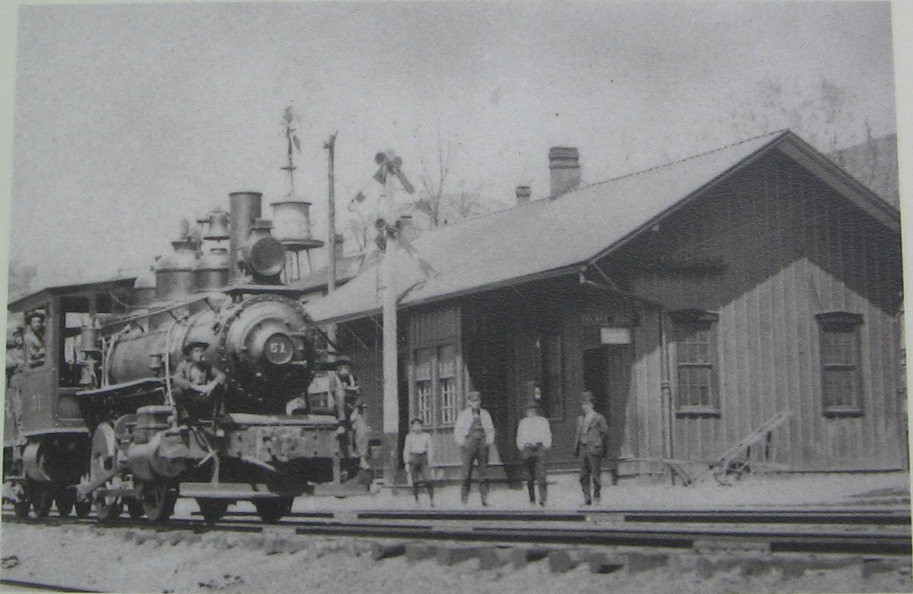 Locomotive on the railroad line of the Jersey Shore, Pine Creek and Buffalo Railway or one of its successors. According to Thomas T. Taber III's book "Sunset Along Susquehanna Waters", the James B. Weed and Company was a lumber business that did logging and operated a sawmill from 1886 to 1910 on Slate Run (a tributary of Pine Creek) in Lycoming County, Pennsylvania. Weed and Co. had an engine #51 which was a 0-4-0, and to get to Trout Run, the trains would have had to travel on the JSPC&BR. This engine was rented from the NYCRR and returned there as its disposition in 1904 or later.